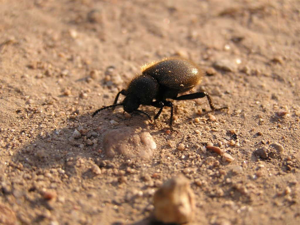 Wooly darkling beetle, Eleodes osculans, at Bolsa Chica Ecological Reserve.